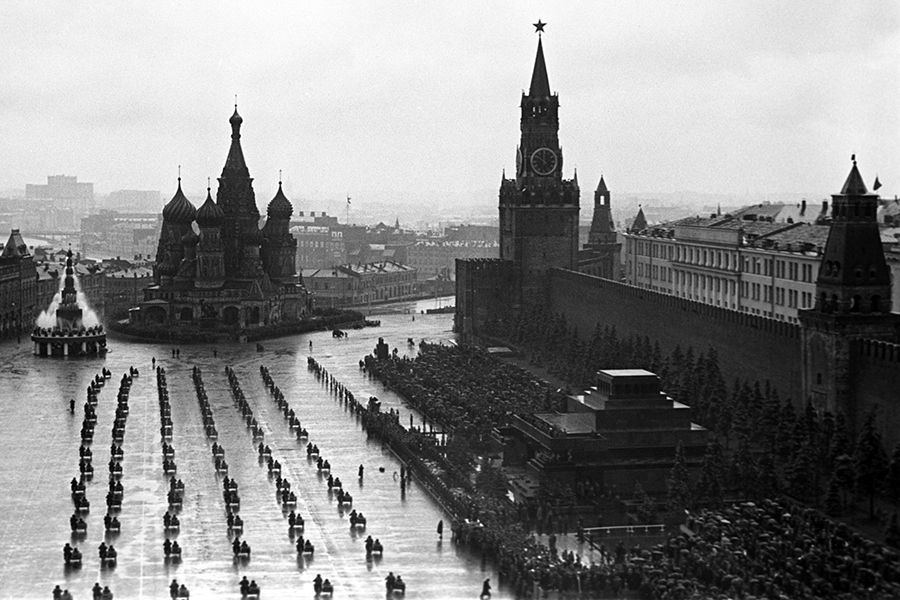 Soviet Victory Parade on Red Square